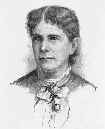 reproduction of undated wood engraving of subject who died in 1906. Library of Congress, Washington, D.C. (Digital File Number: cph 3c12189)